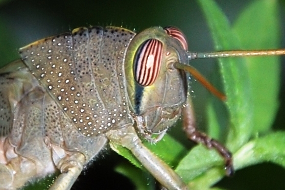 Anacridium aegyptium Sicily